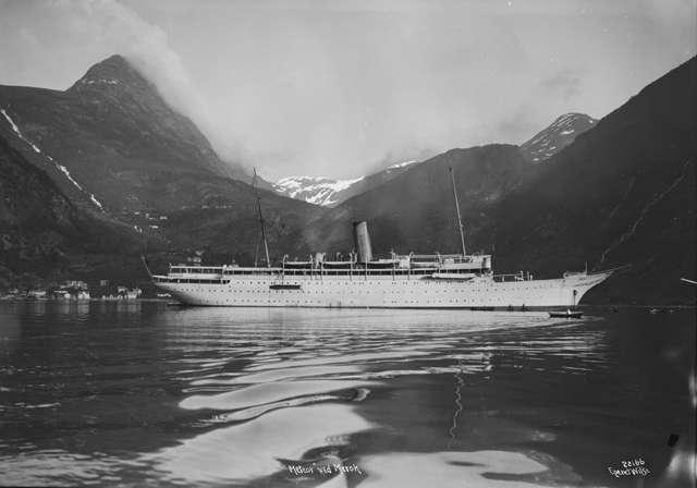 Norwegian cruiseship SY Meteor built in 1904.